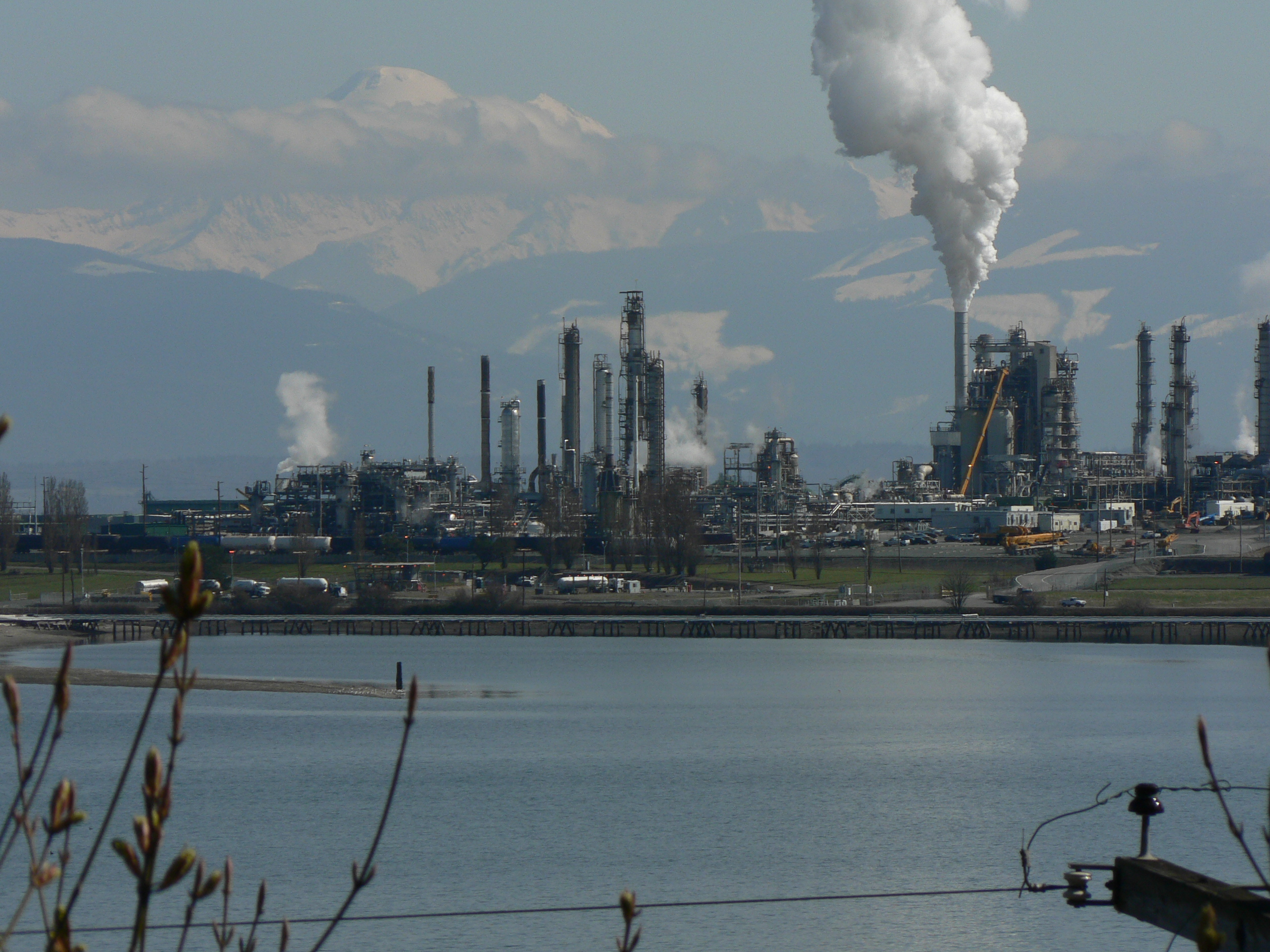 Anacortes Refinery Tesoro Corporation, on the north end of March Point; Mount Baker (10,781 feet, 3286 meters)